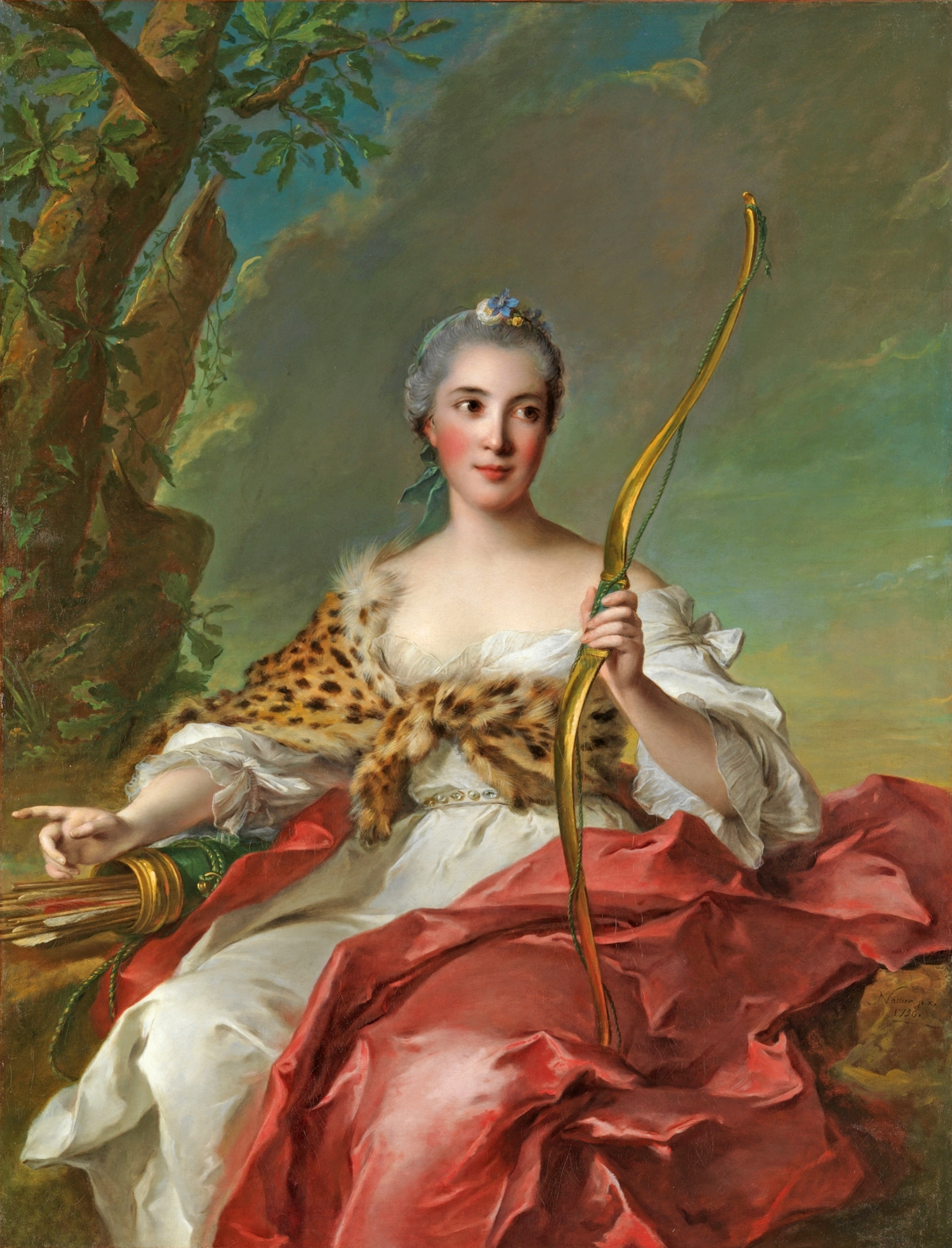 Previously wrongly called Princesse de Condé as Diana